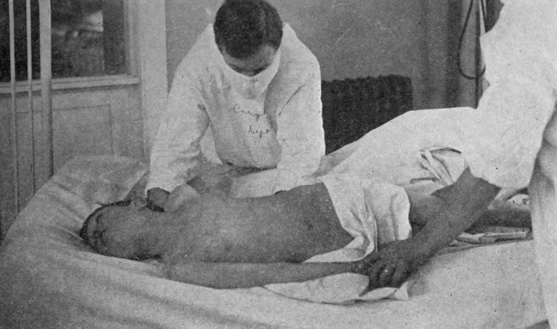 Original caption: “Boy of eleven, ill forty-eight hours with epidemic meningitis. He was detively delirious so that he had to be held for the photograph. Note the posture. The head was markedly retracted, back bowed.”